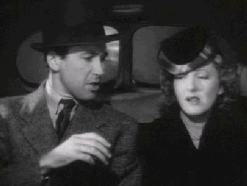 Cropped screenshot of the film Mr. Smith Goes to Washington